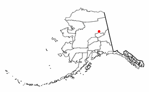 Adapted from Wikipedia's AK borough maps by Seth Ilys.